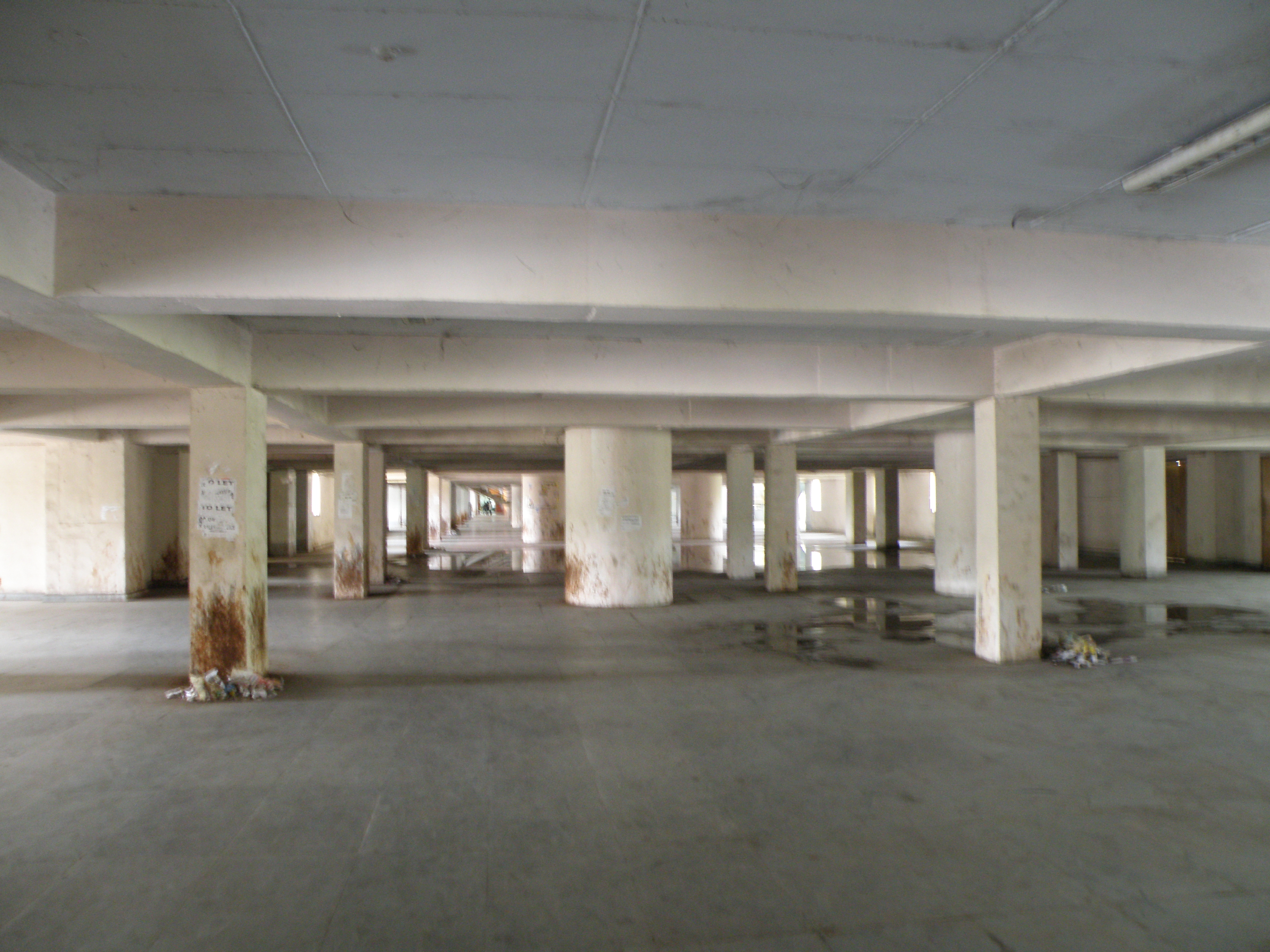 Interior of Thiruvanmiyur station of the Chennai MRTS.